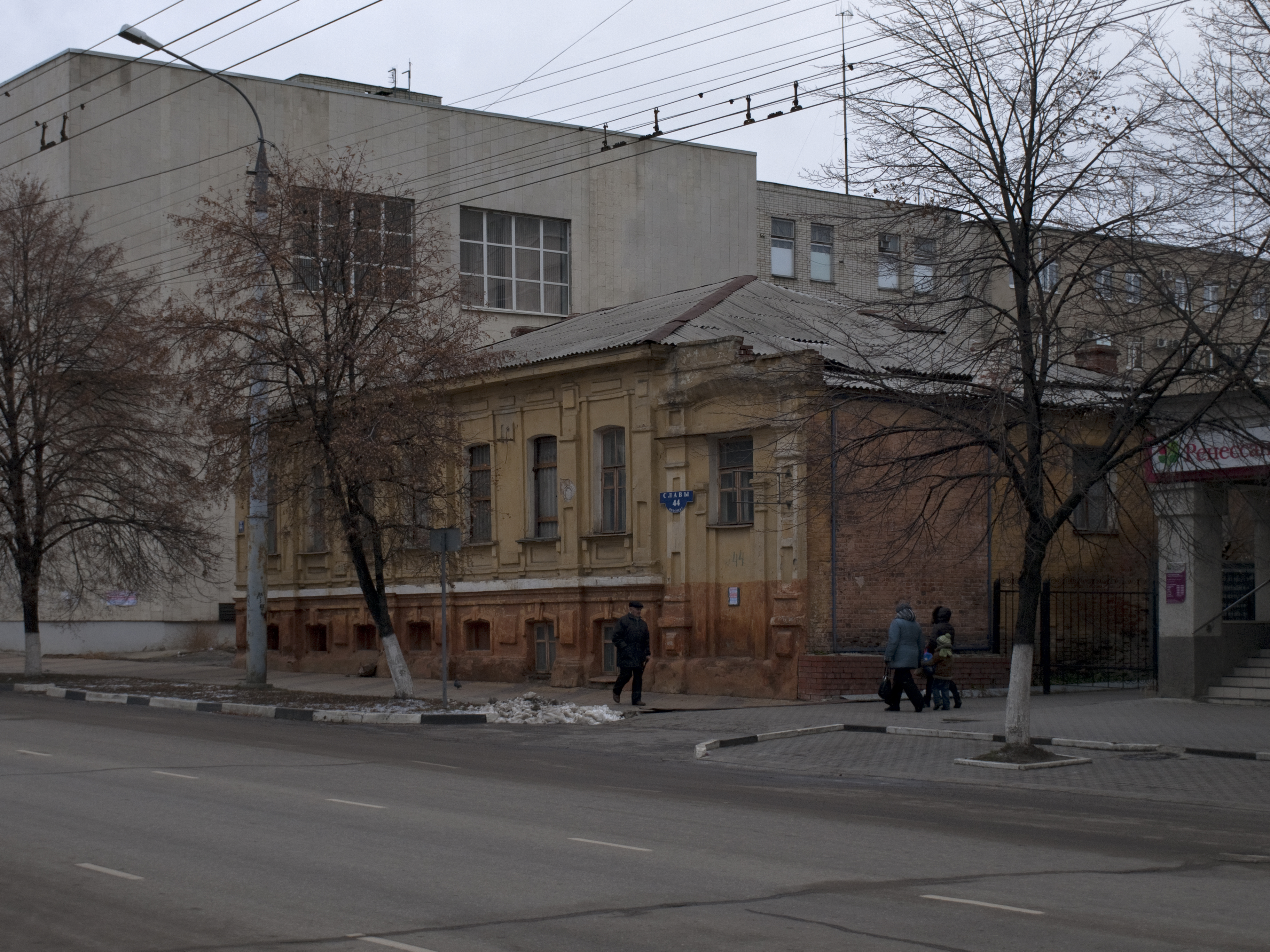 Slavy Avenue 44, Belgorod